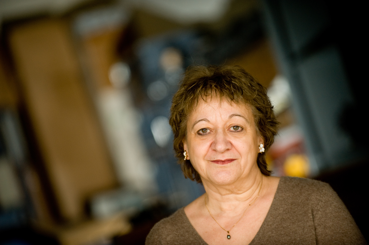 Chryssa Kouveliotou